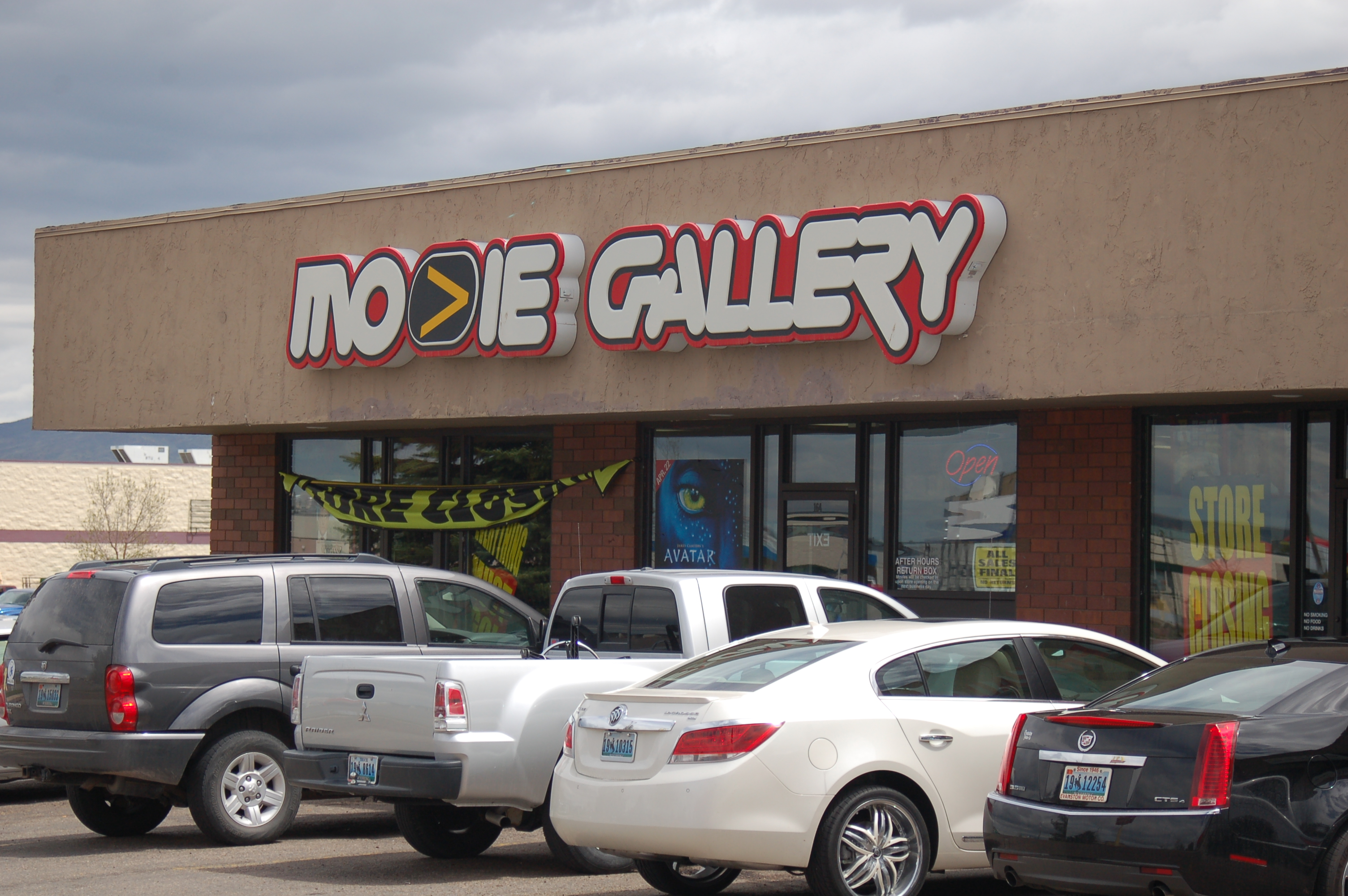 Movie Galley store in Wyoming during its store closing sale